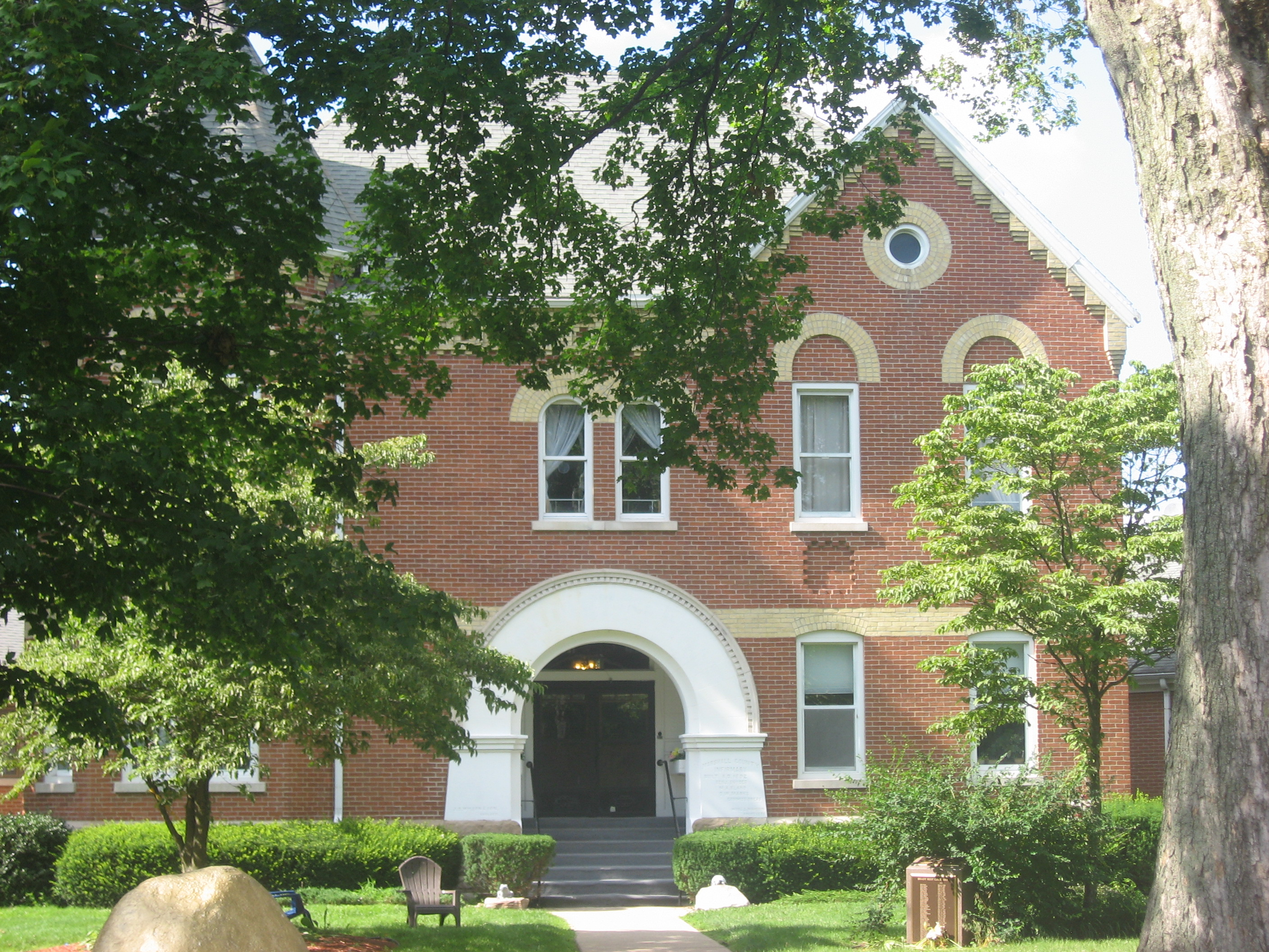 Front of the main building at the Marshall County Infirmary, located at 10924 Lincoln Highway (the old U.S. Route 30) east of Plymouth in Center Township, Marshall County, Indiana, United States. Built in 1892, it is listed on the National Register of Historic Places.